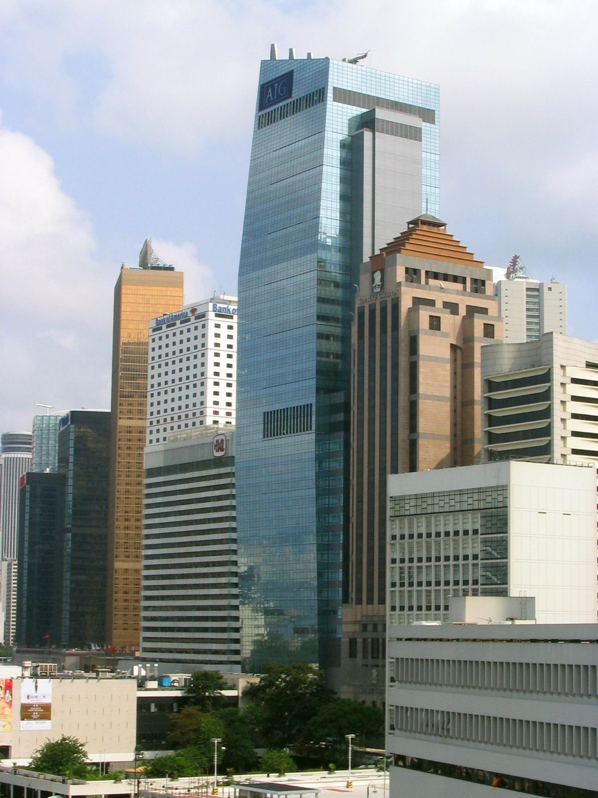 AIA Central (f.k.a. AIG Tower)